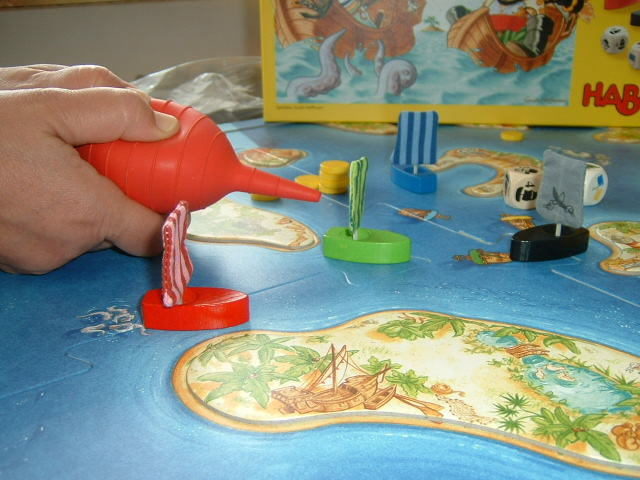 plan of Der schwarze Pirat the winner of Kinderspiel des Jahres 2006, function of the bellow